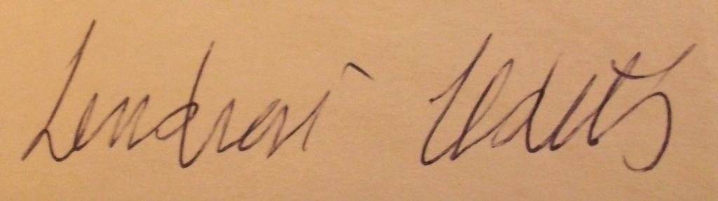 Ildikó Lendvai's signature